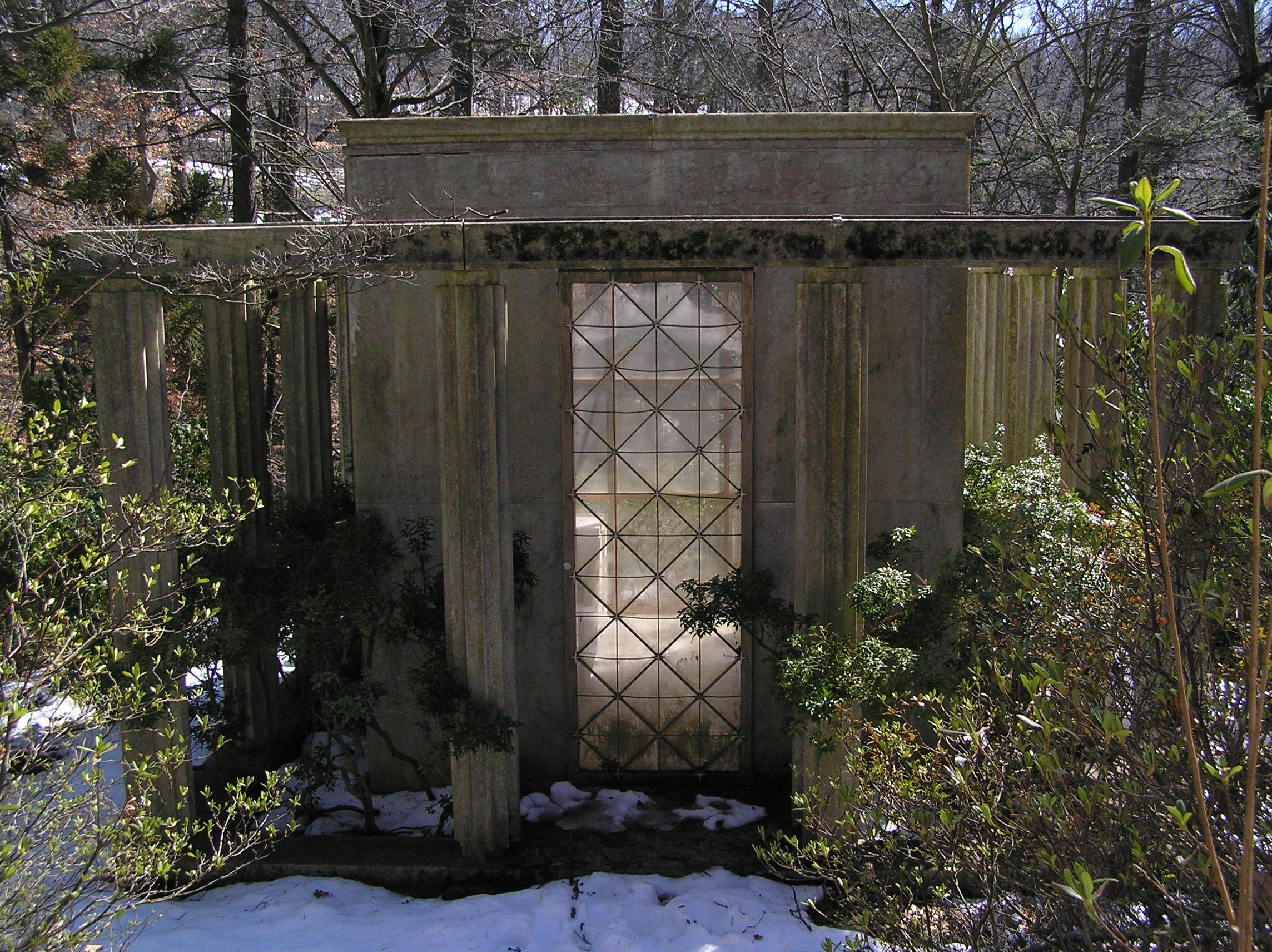 The private mausoleum of Albert Lasker in Sleepy Hollow Cemetery, NY